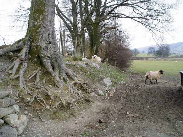 Boundary between two fields. Typical boundary between two fields, not quite a hedge but not a fence either.